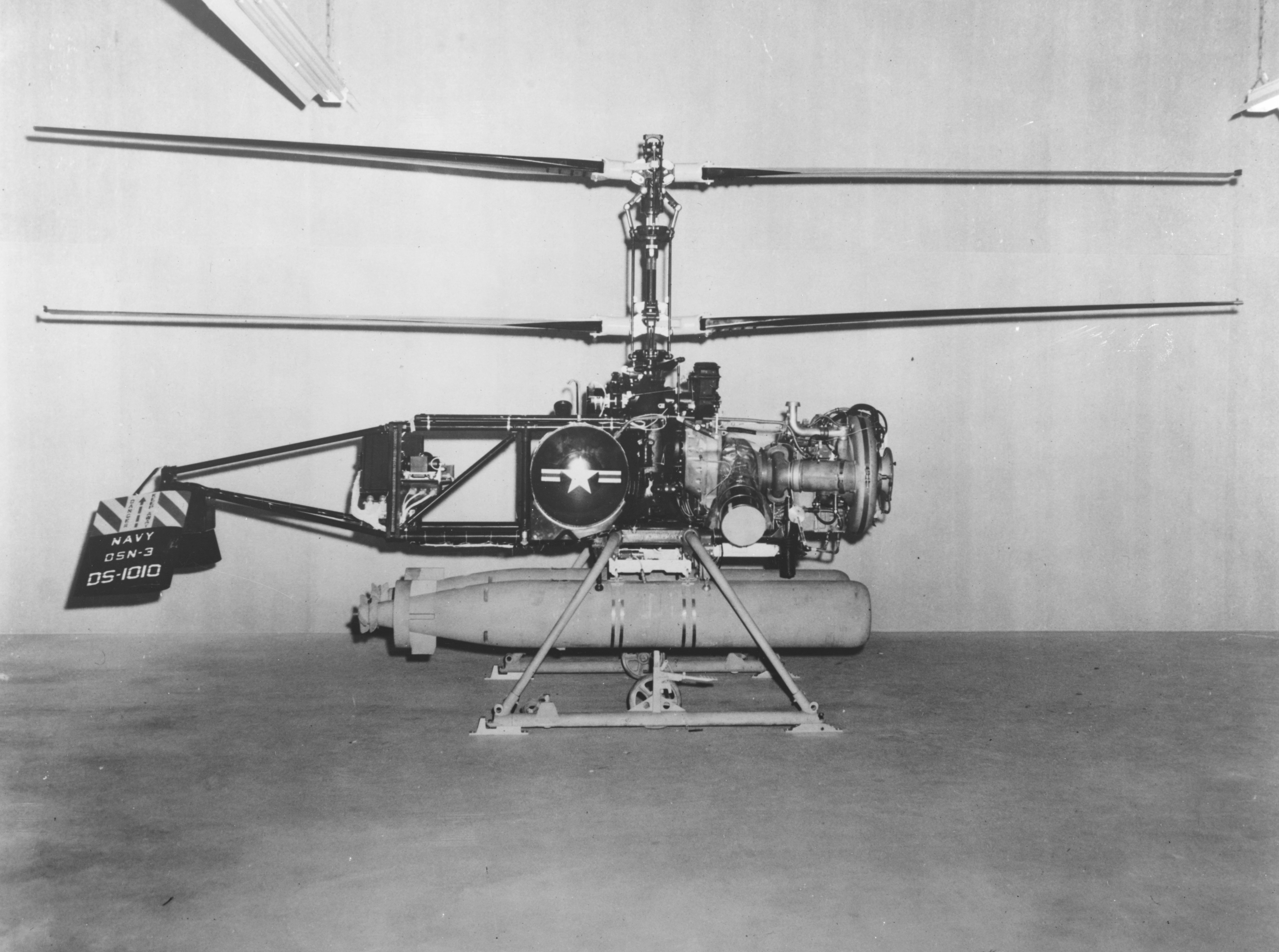 A Gyrodyne DSN-3 Drone Anti-Submarine Helicopter (DASH), circa in 1961. This is a mock up of the pure drone configuration of this helicopter, shown carrying two homing torpedos.